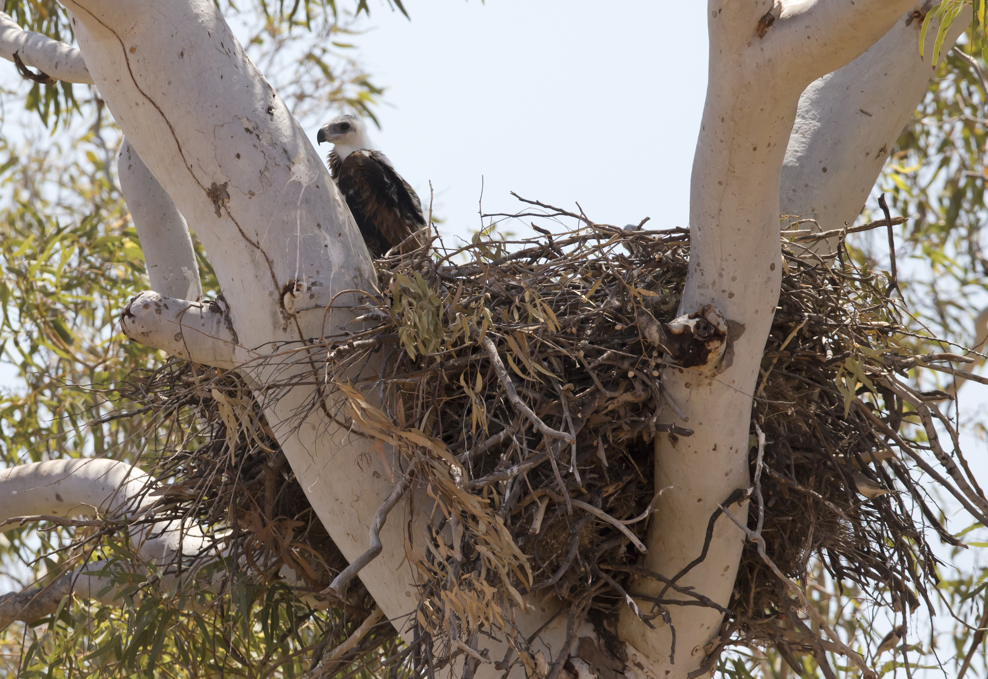 not long now before he flies. Young wedge tailed eagle